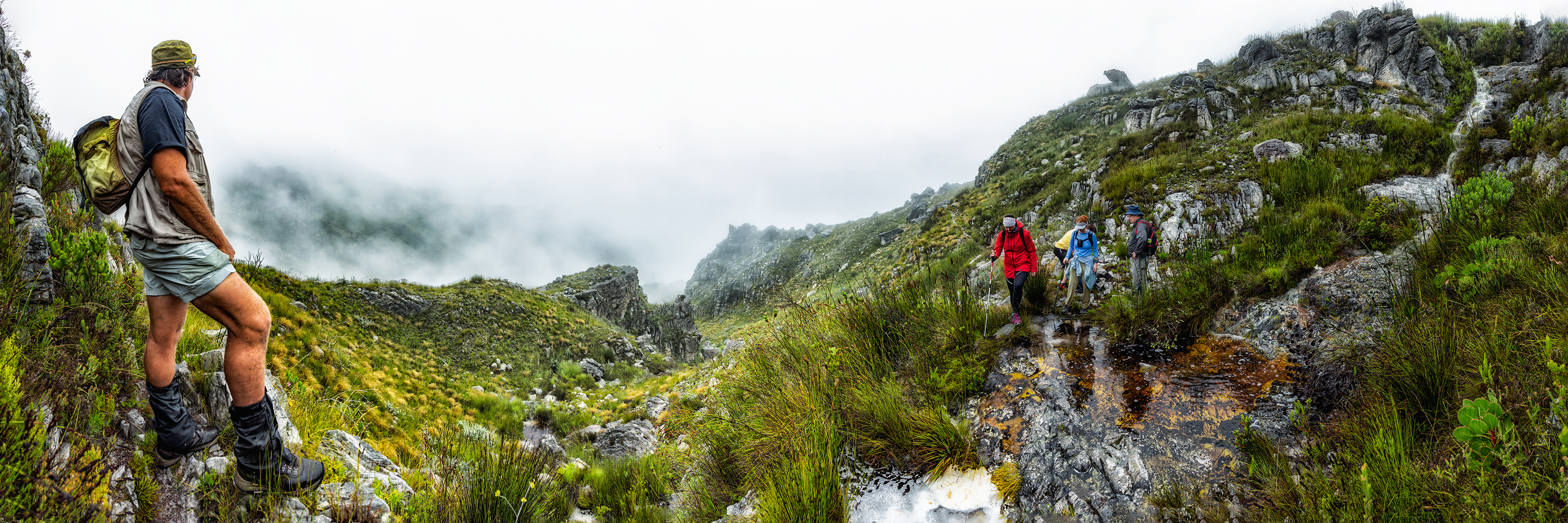 Hikers as young as 4 years old, and in this particular case, as old as 68 years old, can tackle the 38km, three day hike in the Hottentots Holland Nature Reserve of the Western Cape, to summit the Sneeukop Mountain. The Hottentots-Holland Nature Reserve is one of 5 reserves that make up the Boland Mountain Complex of the Cape Floral Region (Kingdom), a UNESCO world heritage site. This is an image with the theme "Play" from: South Africa